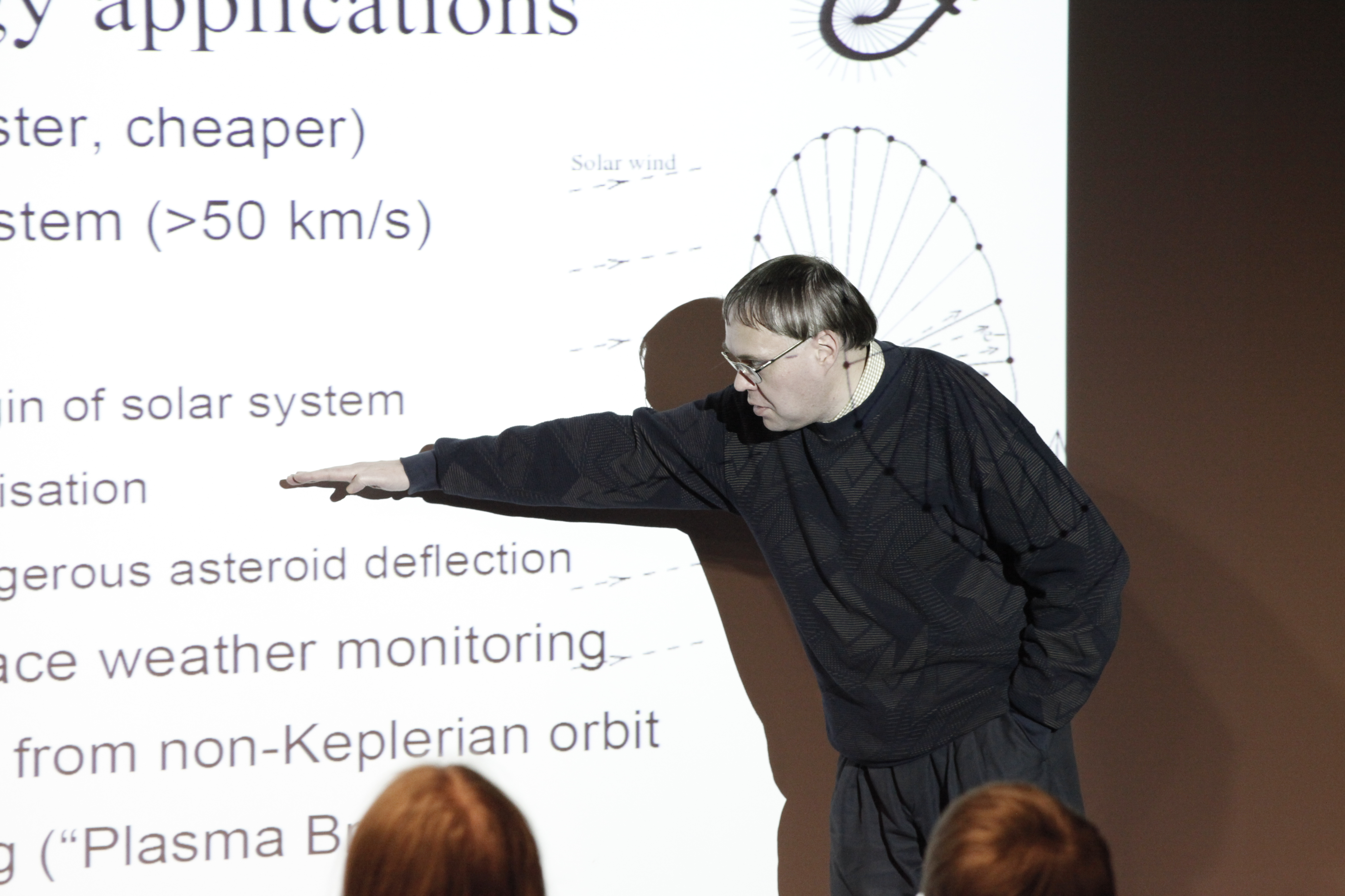 Pekka Janhunen in Tallinn TV tower at ESTCube-1 presentation.